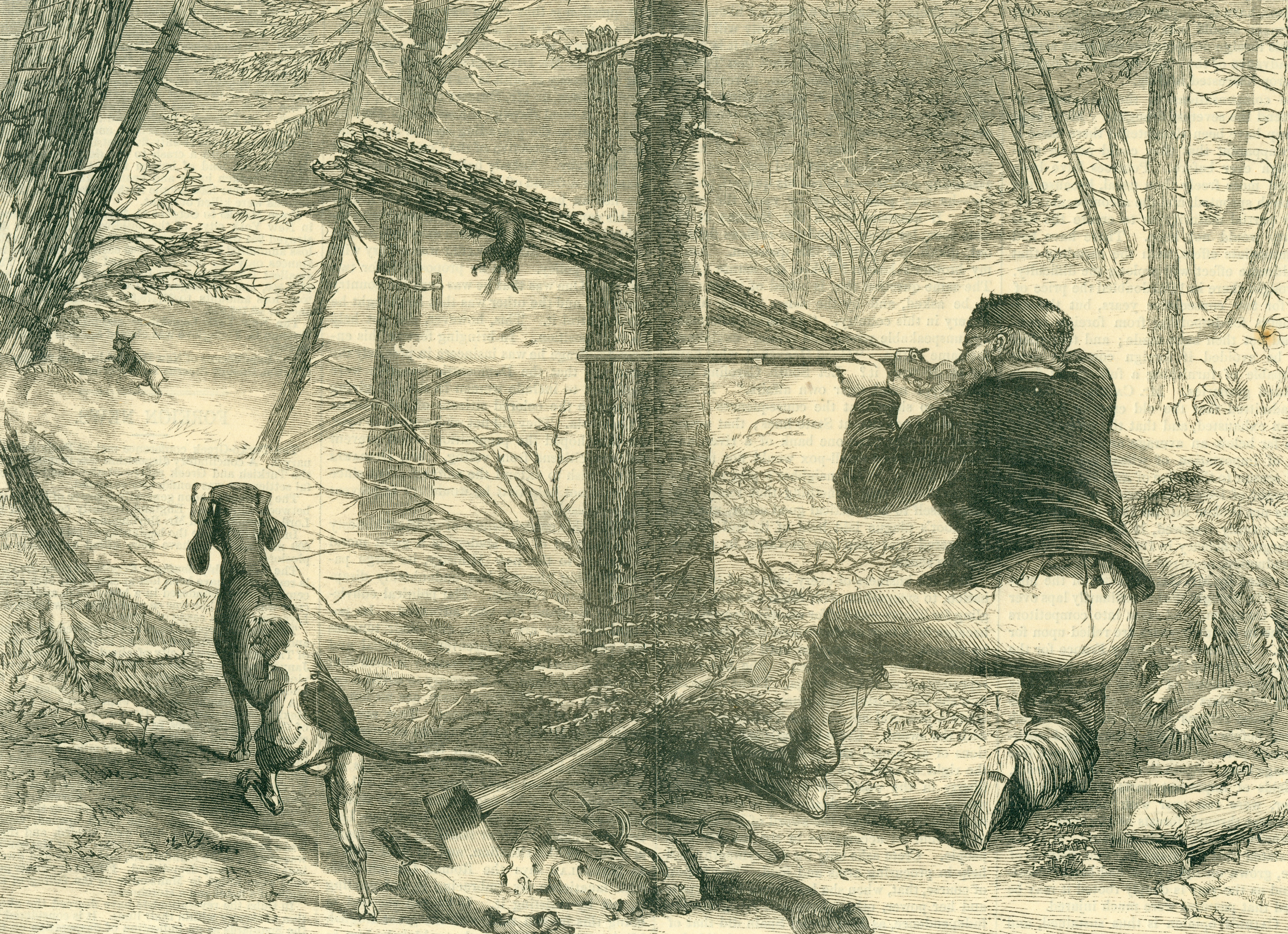 From Harper's Weekly, 23 January 1869. p. 52.Title: The Fur Trapper.